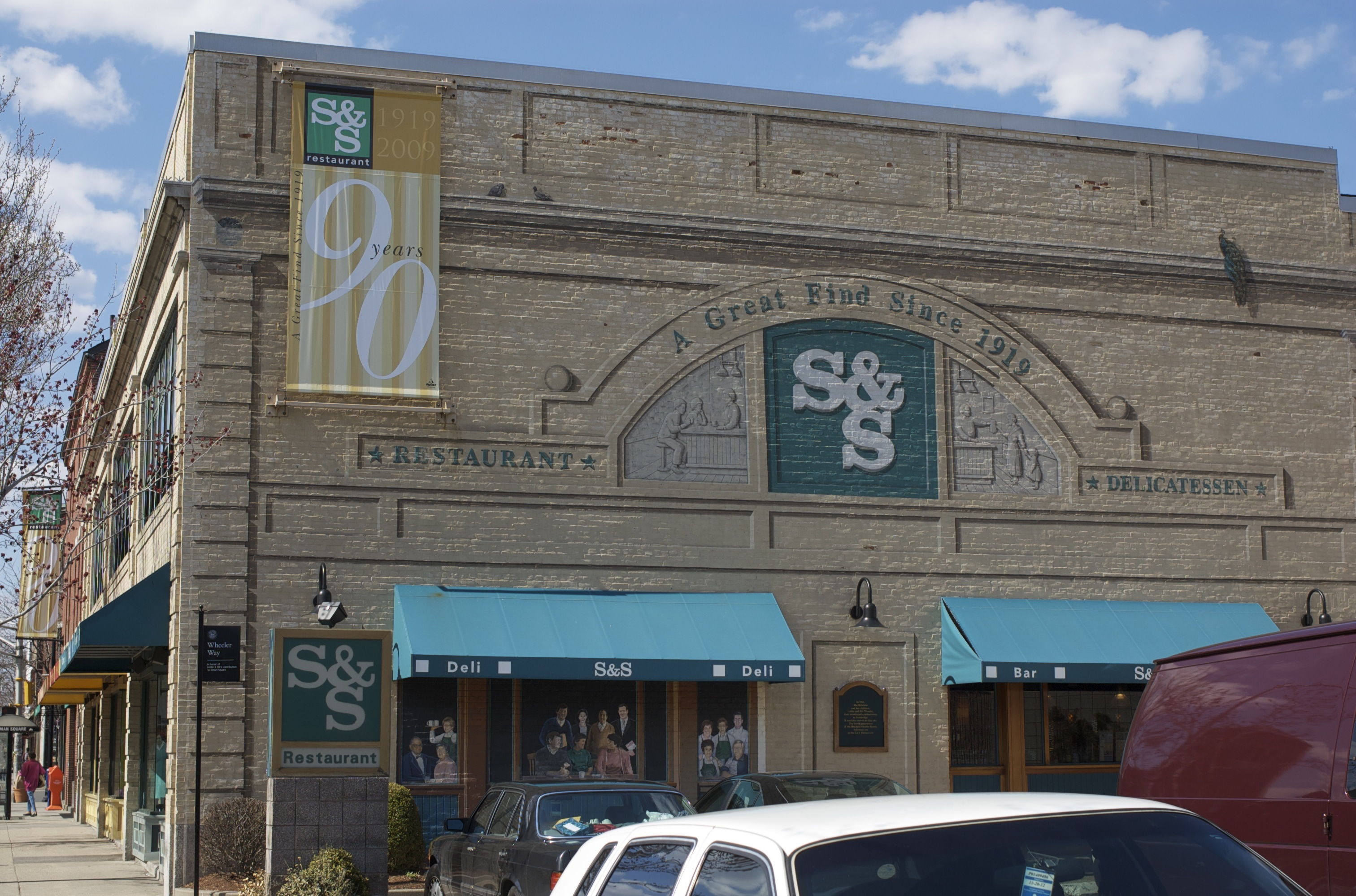 The famous S&S Deli in Inman Square, in Cambridge, Massachusetts.